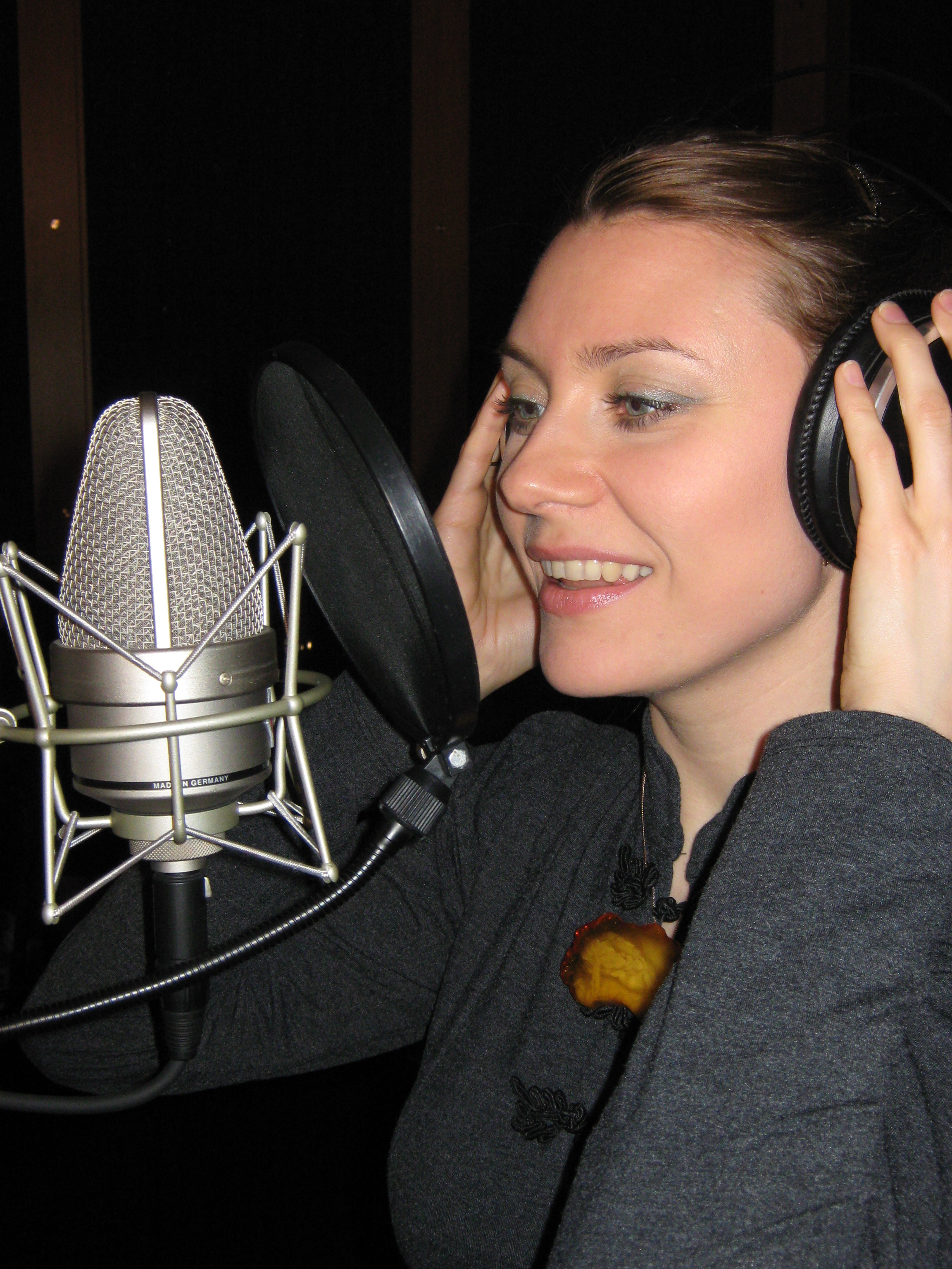 Zakharova-Volovik, Ksenia. Singer romances, Russian folk and author's songs, composer. Laureate of International festivals and competitions.